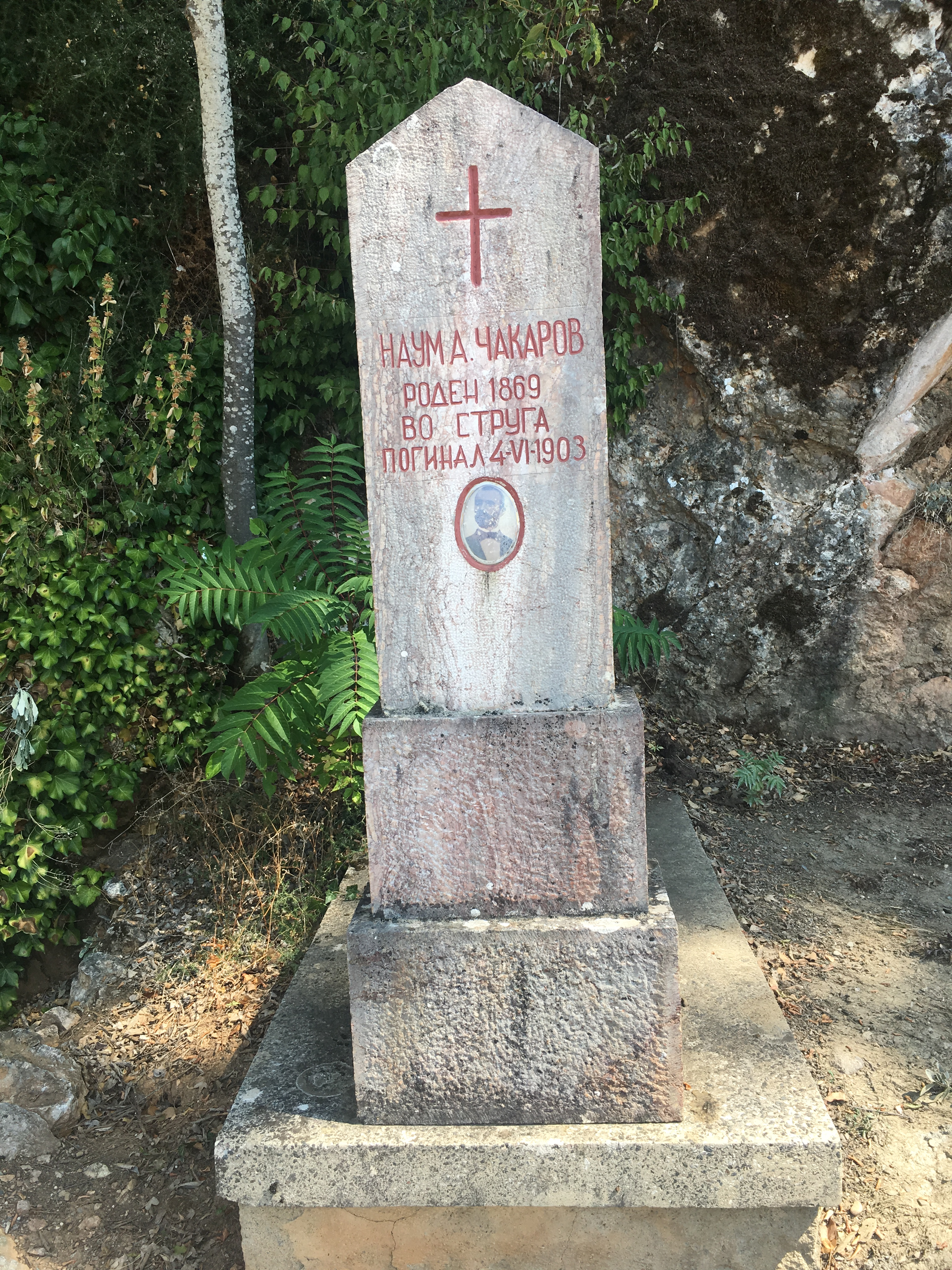 The grave monument of the Macedonian revolutionary Naum Čakarov (1869 - 1903) in Šipokno Monastery's yard